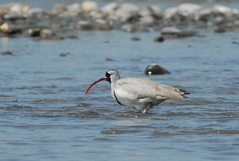 Ibisbill (Ibidorhyncha struthersii), Jia Bhorali River, Nameri National Park, Assam, India